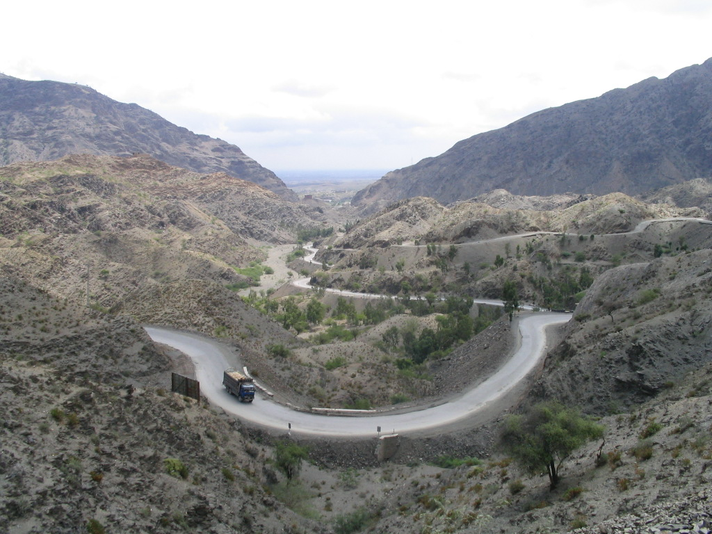 Taken at the site where the Khyber Pass starts to climb high into the mountains towards Afghanistan; the view towards the Pakistan side